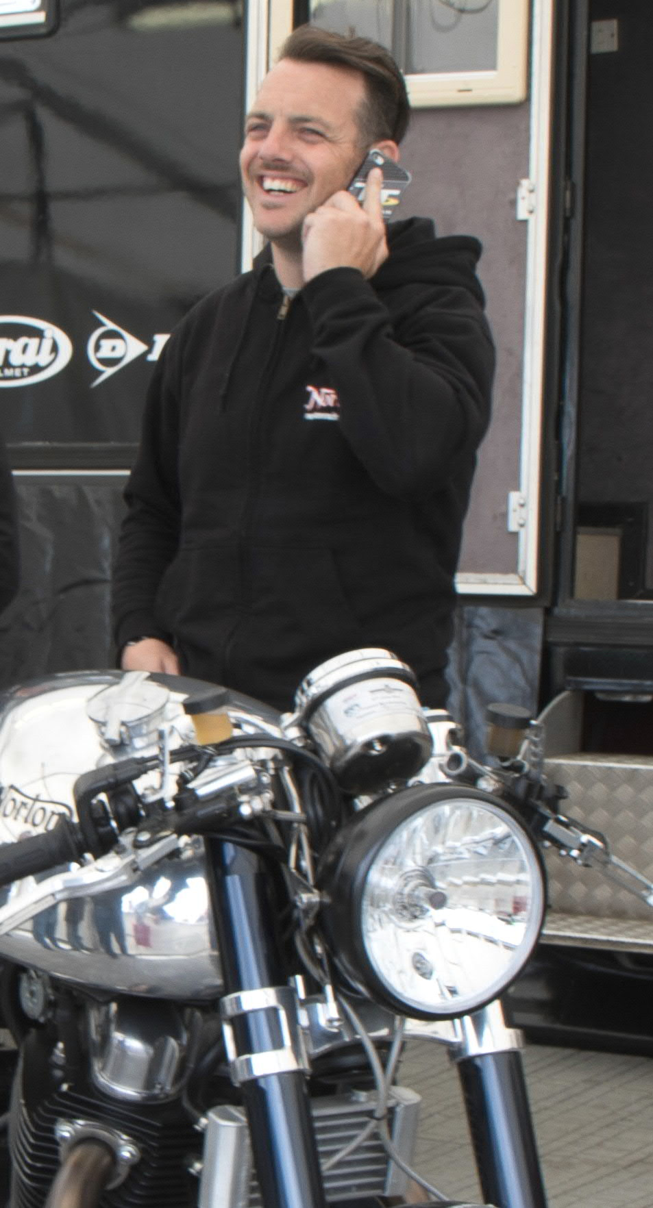 Australian motorcycle road-racer Cameron Donald using a mobile 'phone at the Norton paddock area, Isle of Man TT races 2015